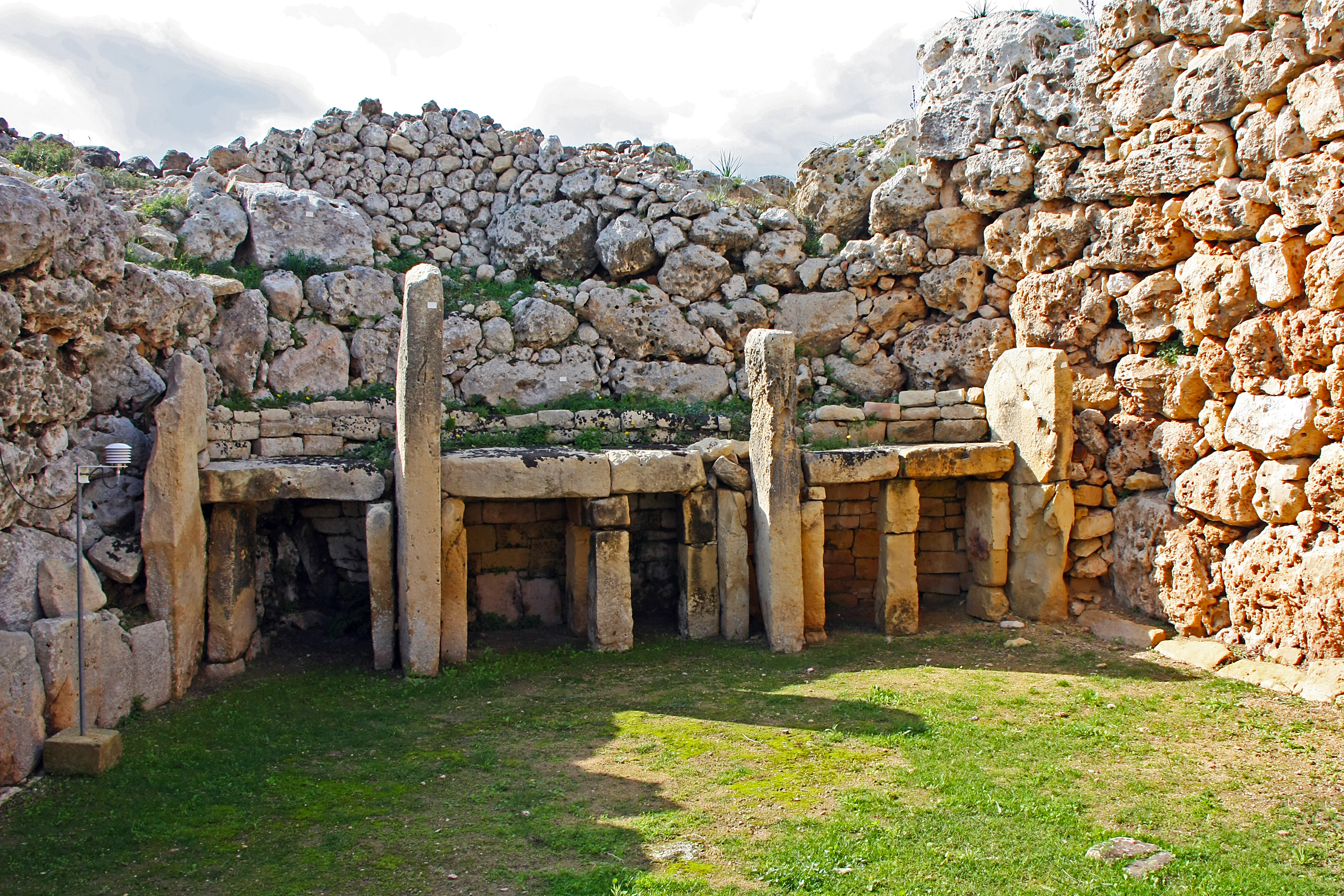 3 Sacrificial altars in Ġgantija Temples. Xagħra, Gozo